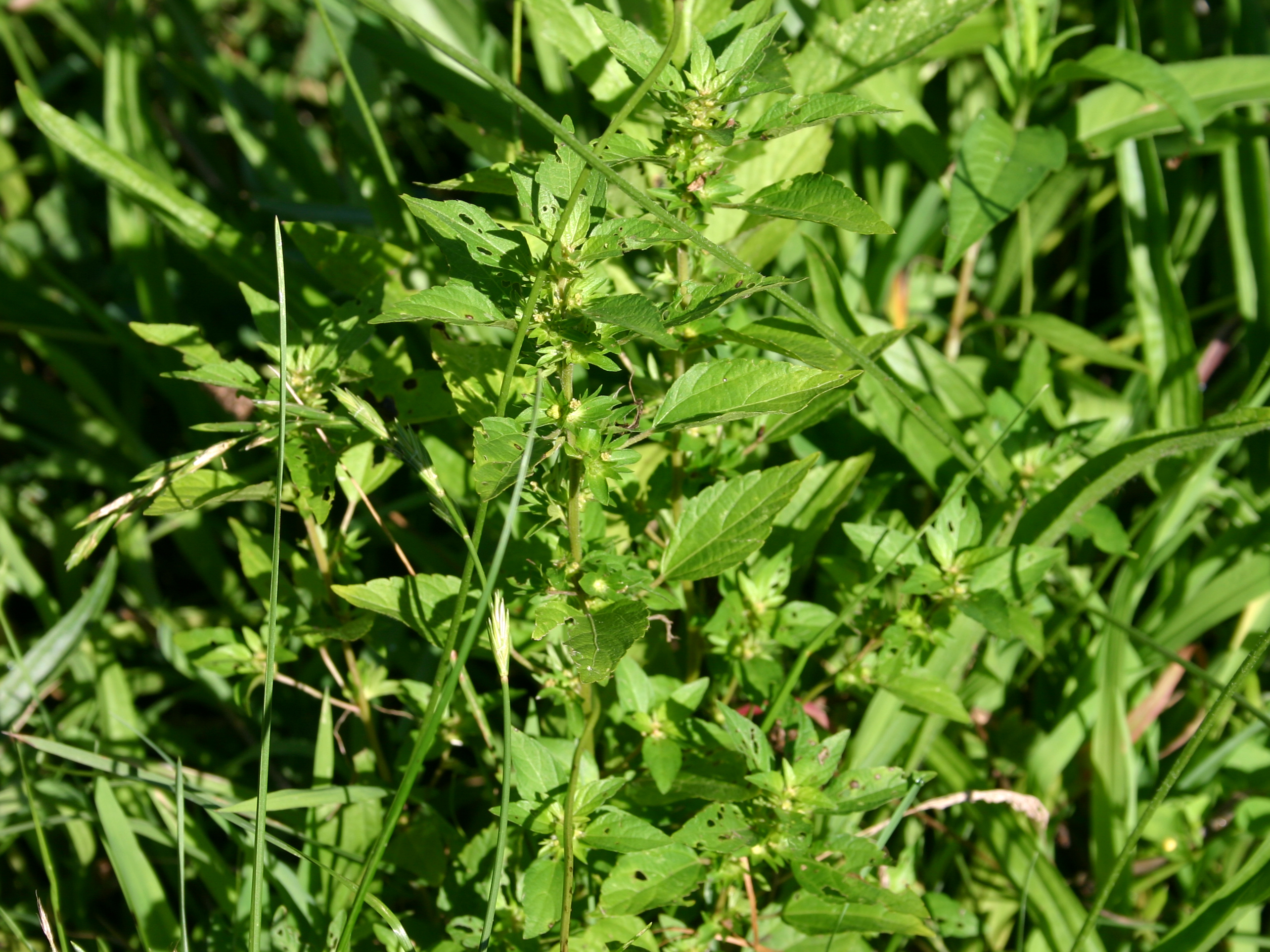 Acalypha rhomboidea - Common copperleaf, Common threeseed mercury